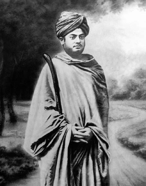 Swami Vivekananda in Jaipur, India, probably 1891–1892